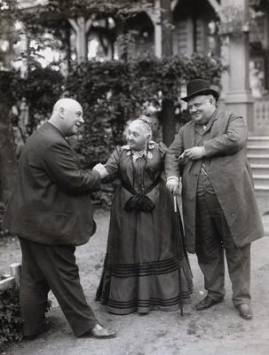 K. varlamov, V. Strelskaya, V. Davydov